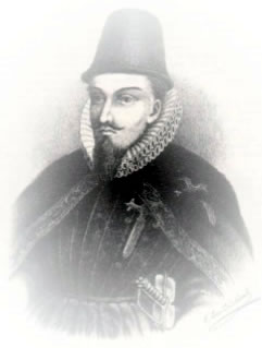 Picture of the sixth viceroi of Peru.